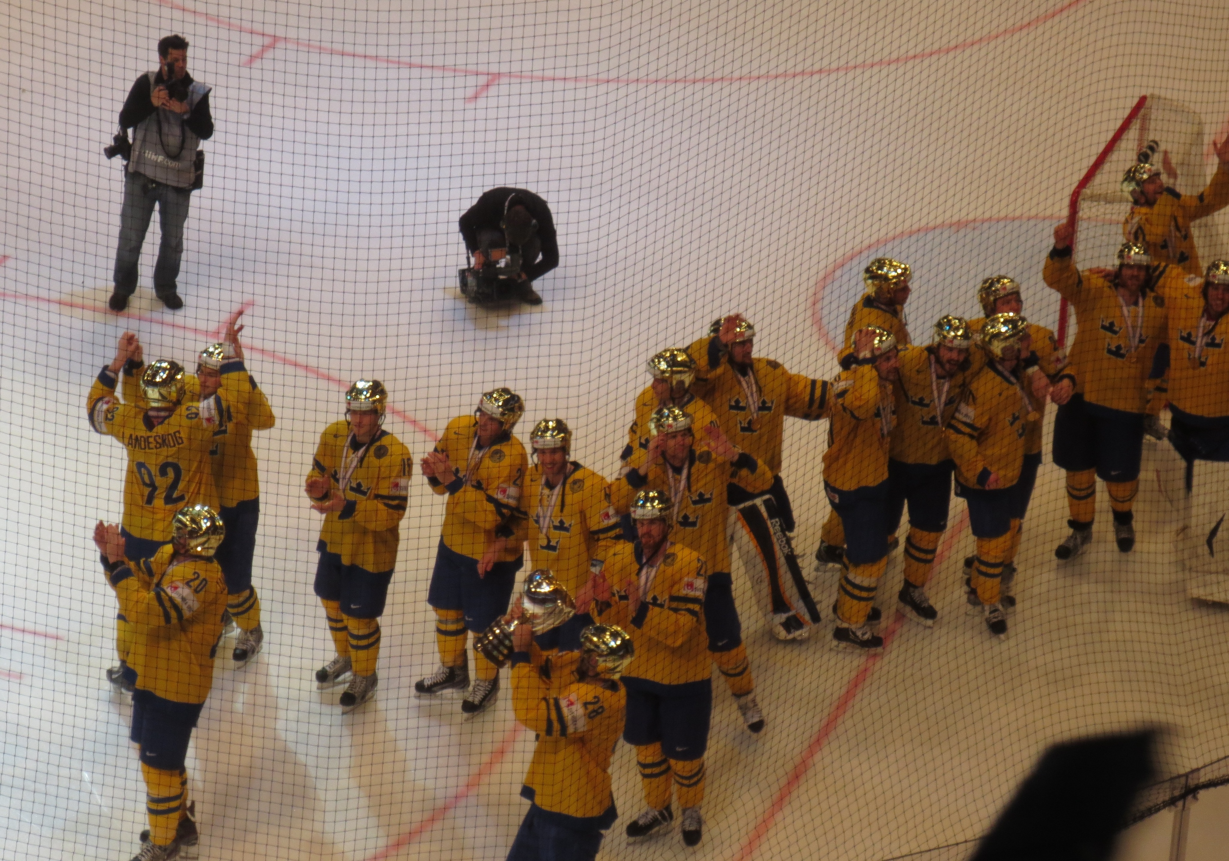 Swedish players with their gold medals and the cup after the 2013 IIHF World Championship Final.